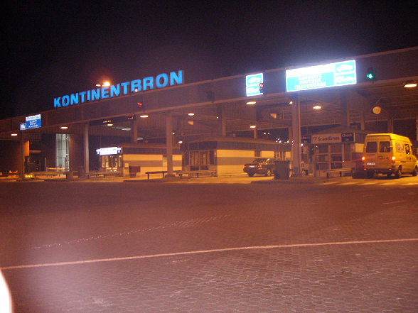 From the southernmost city of Sweden, Trelleborg (in County of Skåne or "Scania". Pictrure shows car entance of the car ferry terminal "Kontintenbron" (Eng. translation about "The Continental Bridge") Here are three shipowners with five routes to three german and one polish harbour. It's by number of lorries and tonnage-load (and in economical terms) the most importaint border station of Sweden.